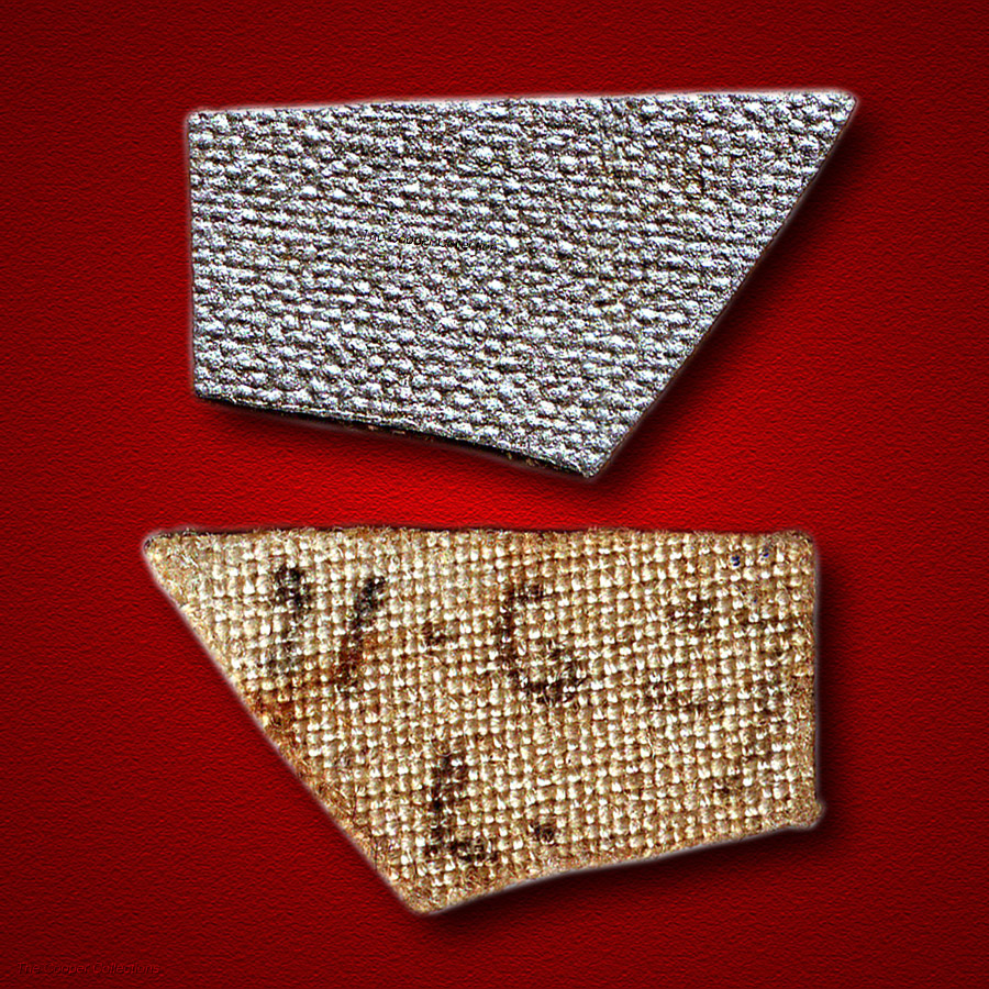 Small piece of the fine linen fabric painted silver from the Spirit of St. Louis from a larger piece presented by Charles Lindbergh to the Belgian Ambassador to France in Paris, May, 1927. Source: The Cooper Collection of Lindberghiana Provenance: The small piece of fabric is attached to the face of a calling card by means of a 1927 "Lindbergh Air Mail" U.S. postage stamp (C-10) and is stamped on the reverse with the seal of the Belgian Embassy in Paris, a second stamp reading "L'Ambassadeur de Belgique á Paris", and the signature of the Ambassador. The calling card is that of Albert Arnould, Directeur de la Scene du Theatre Marginy, Paris, and has a handwritten inscription that the fabric came from "l'avion Spirit of St. Louis de Lindbergh" and the date "Juin 1927". The fabric covering of the Spirit (from which this example came) had been badly damaged by souvenir hunters when the monoplane was enveloped by thousands of enthusiastic Parisians immediately after it landed at Le Bourget. Much of this covering therefore had to be replaced before Lindbergh flew the Spirit on to Evere Aerodrome in Brussels, Belgium, a week later on May 28, Croydon Aerodrome in London, England, on May 29, and Gosport, England, on May 31. There it was dismantled and loaded on the US Navy light cruiser USS Memphis which took Lindbergh and the Spirit back to the United States where the plane was reassembled at Bolling Field in Washington, D.C.., from which it made its next flight to New York on June 16th.